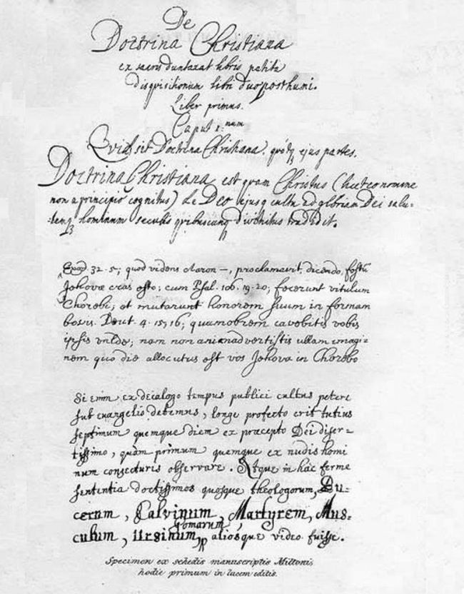 First page of De doctrina Christiana (Milton), written pre-1700, published in 1825.